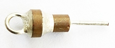 Ceramic Feedtrought capacitor 1nF.